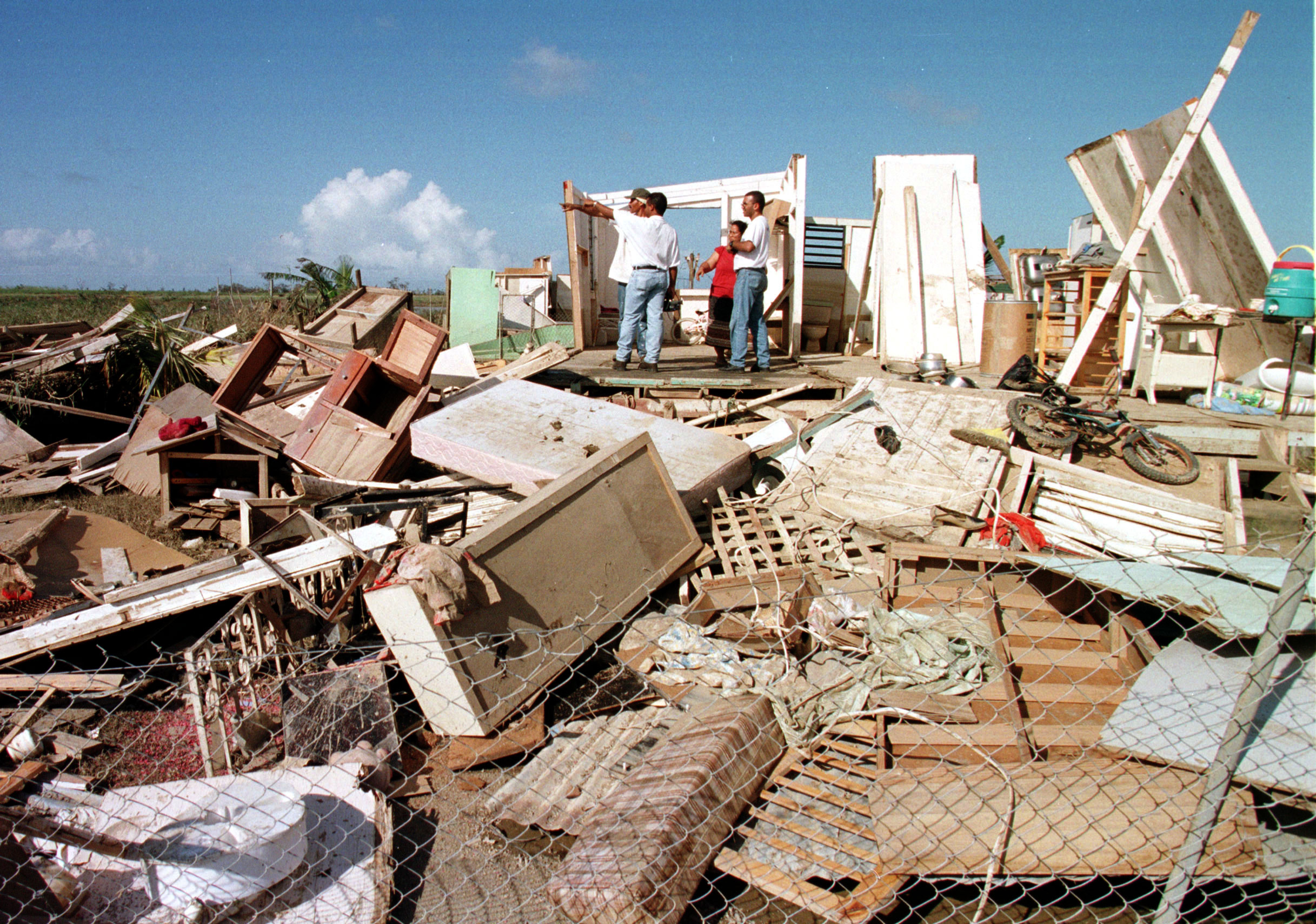 Toa Baja, PR, October 1, 1998 -- A family in the Barriada of the Villa del Sol in Toa Baja, survey the wind and flood damage to their home along with FEMA and Civil Defense Officials.